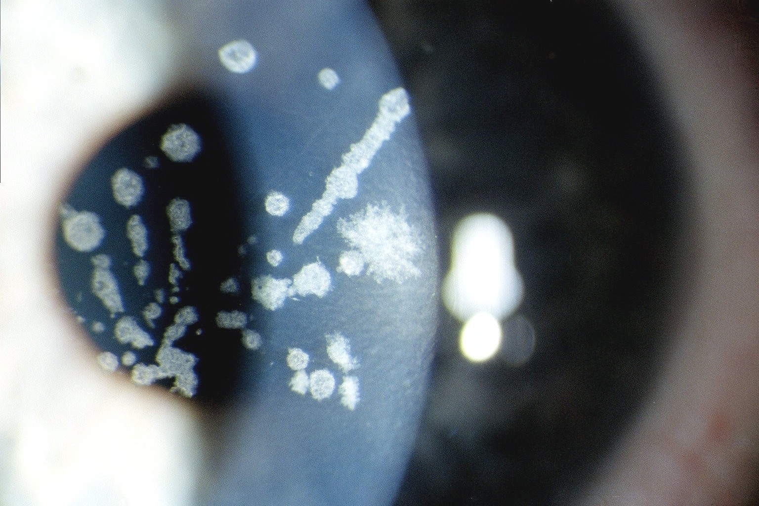 Granular corneal dystrophy type II. Variable sized crumb-like opacities in the corneal stroma that have become fused in areas giving rise to elongated and stellate shapes. Klintworth Orphanet Journal of Rare Diseases 2009 4:7